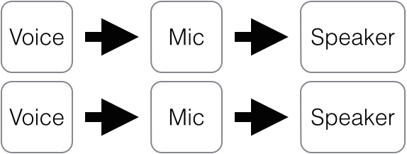 A depiction of an A/B Sound System for the article A/B Sound System